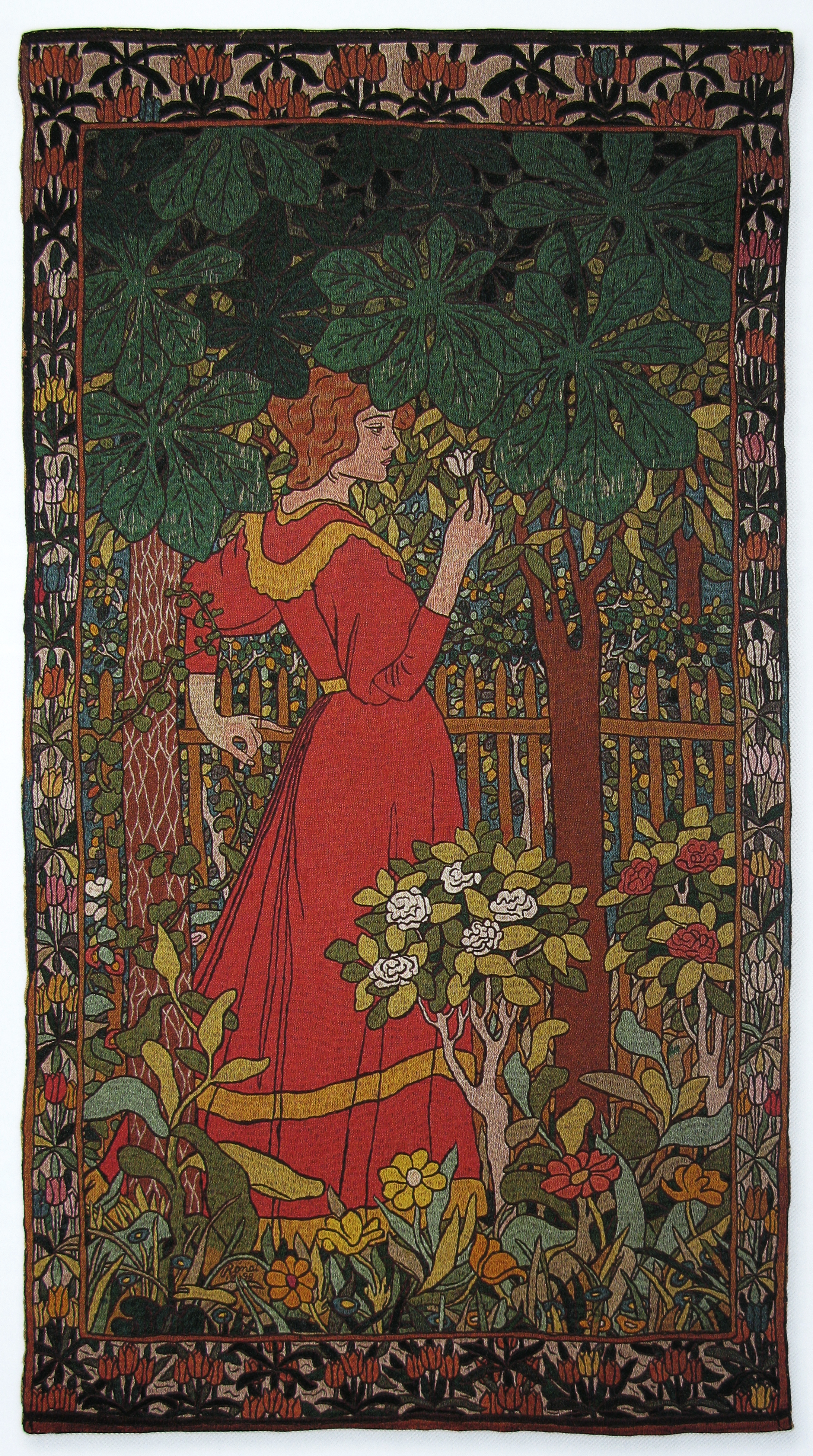 Young Woman with Rose, tapestry, 230 x 125 cm, Museum of Applied Arts, Budapest